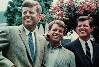 Kennedy brothers